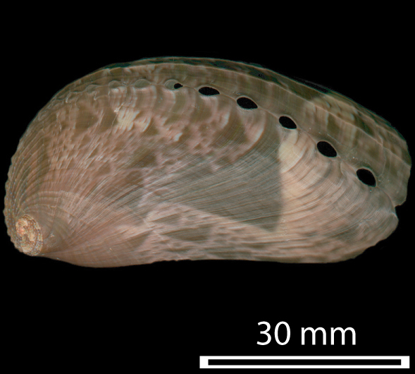 photo of sexually mature Haliotis asinina